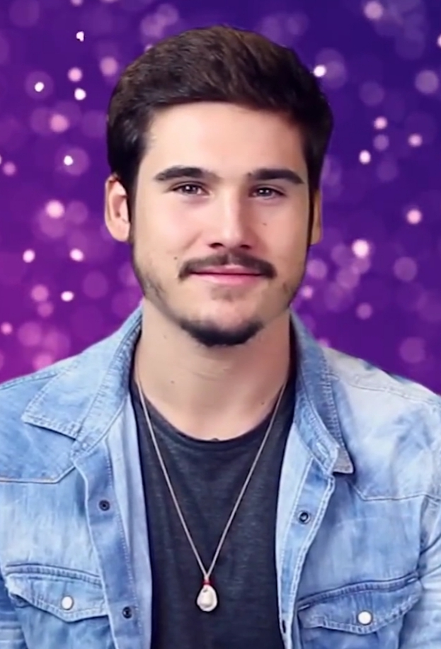 Nicolas Prattes em 2018.